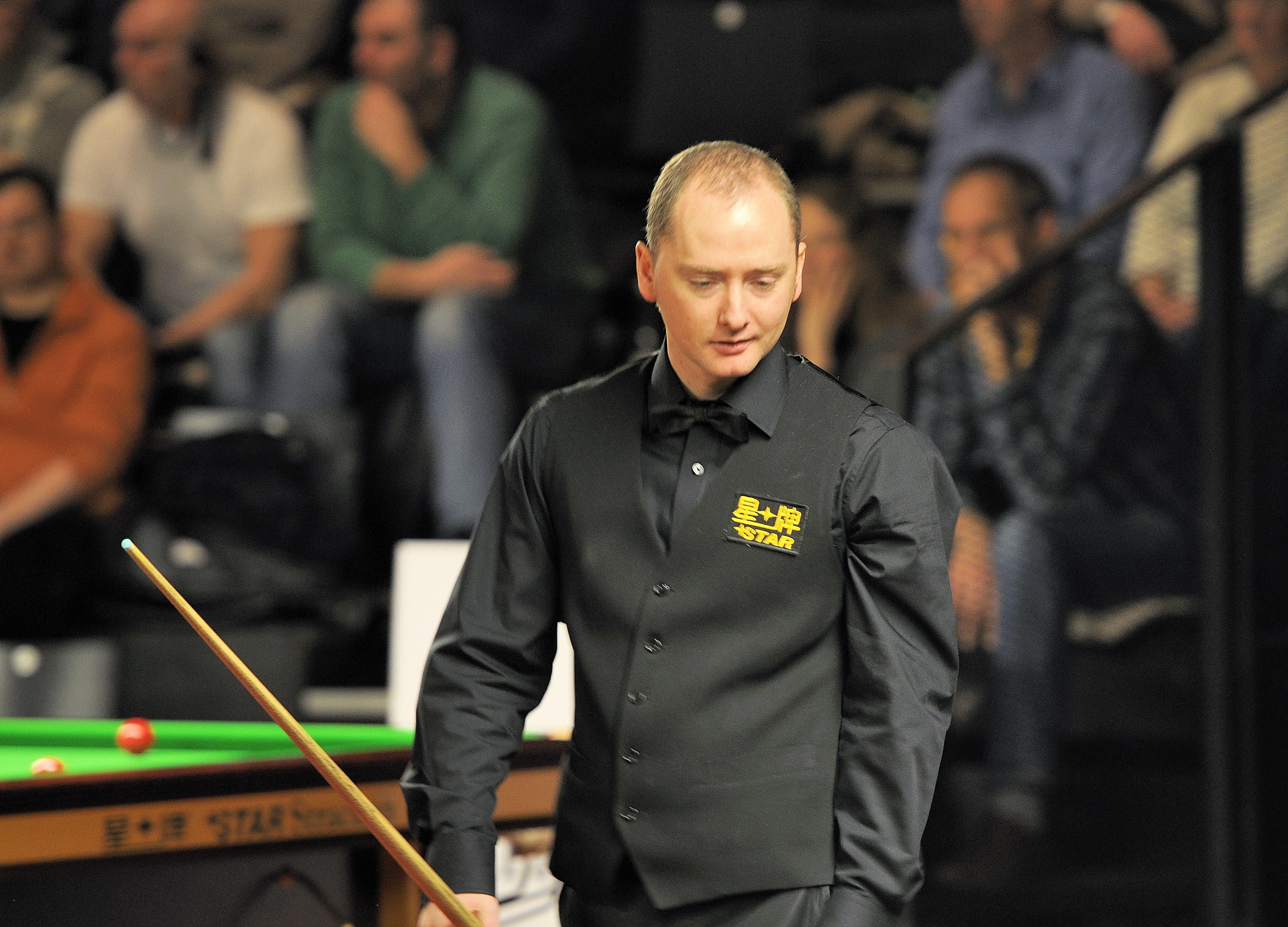 Picture taken in Berlin during the Snooker German Masters in 2014. Graeme Dott.